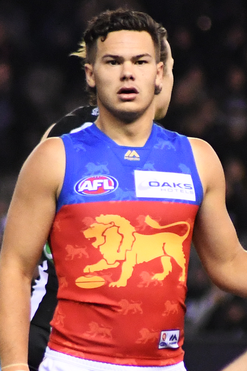 Cameron Rayner of Brisbane during the 2018 AFL round 21 match between Collingwood and Brisbane at Etihad Stadium on Saturday, 11 August 2018 in Melbourne, Victoria.